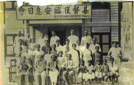 Pastor Prakasham and Pastor Lot are seen sitting in the front row with garlands. This picture was taken in Kulim, Southeast of Kedah state. Another Telugu work in the early 1930s